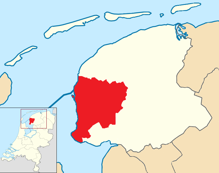 Súdwest-Fryslân, municipality in Friesland, Netherlands, 2018